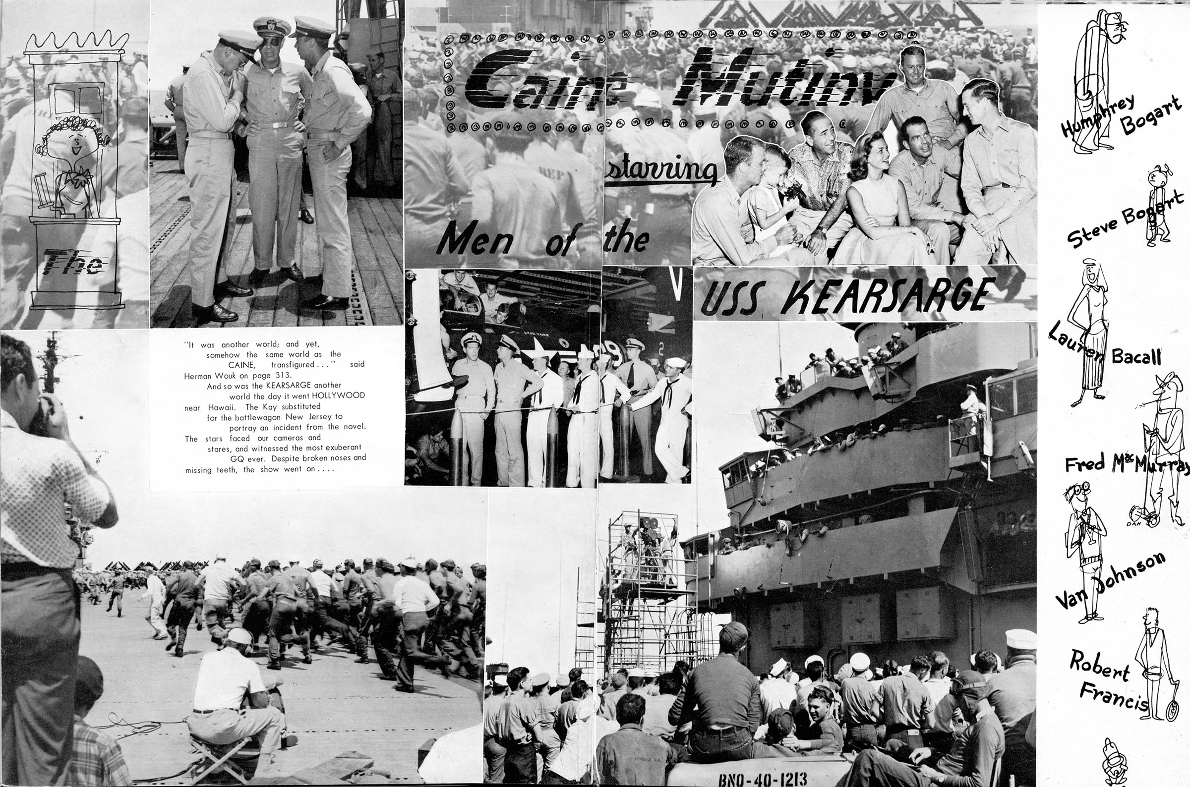 USS Kearsarge (CVA-33) cruise book, 1953 - Caine Mutiny filming.